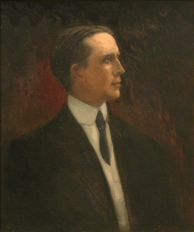 Portrait of Tennessee Governor Ben W. Hooper (1870–1957)